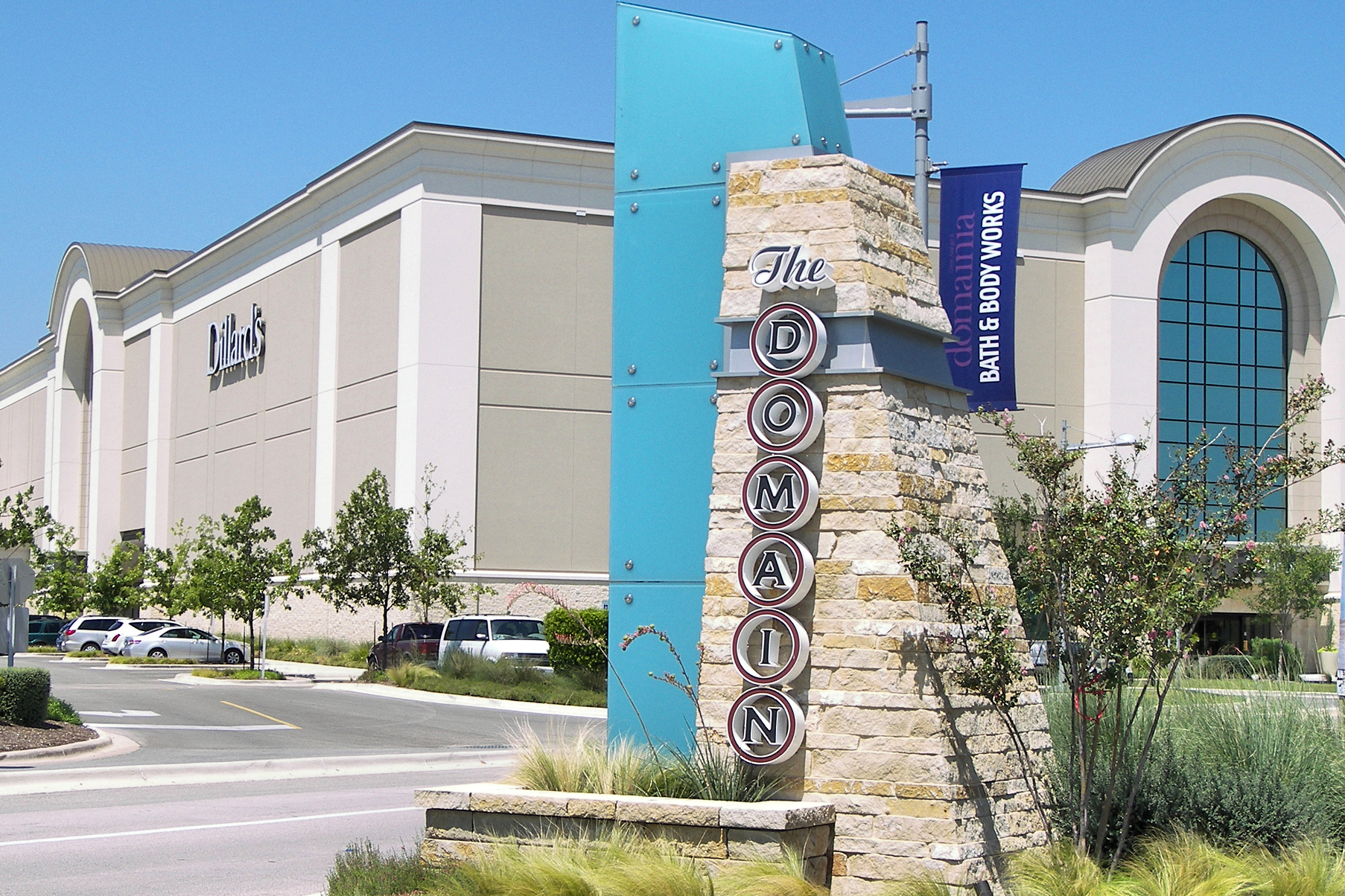 Dillards store in the second phase of The Domain shopping center Austin, Texas, United States.